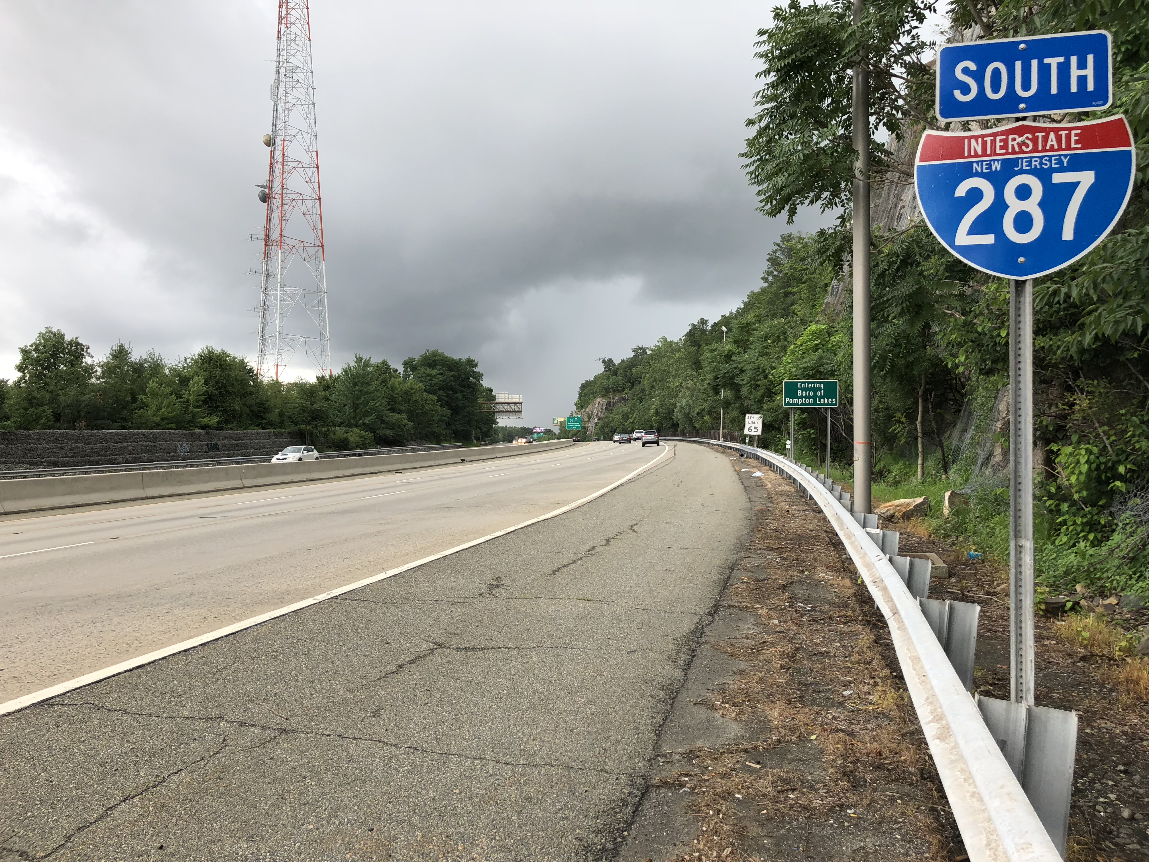 View south along Interstate 287 between Exit 55 and Exit 53 in Wanaque, Passaic County, New Jersey